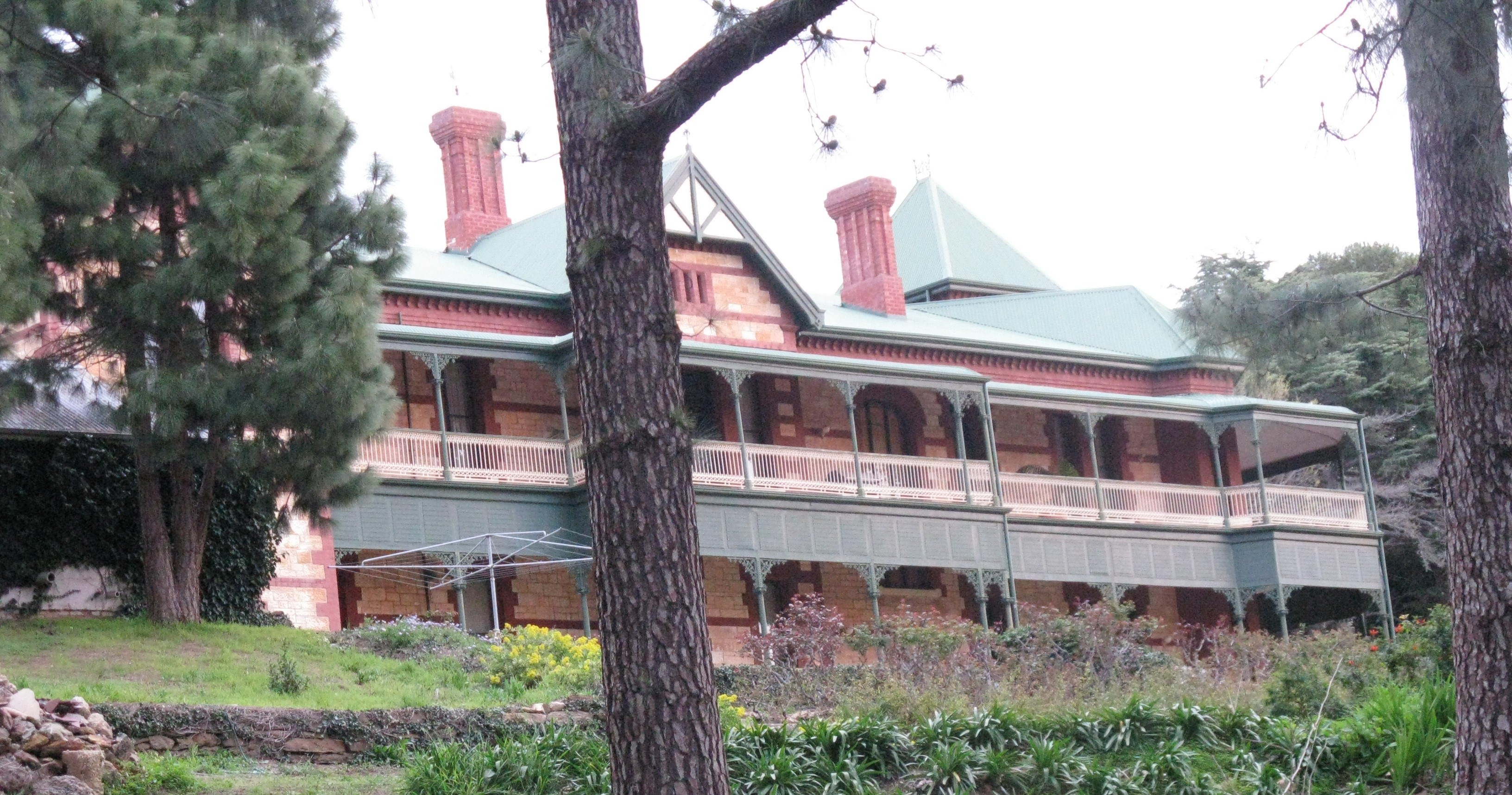 A Hills Hoist in the back yard of Birralee, Belair. Built 1897. Location: 49 Sheoak Rd, Belair, South Australia